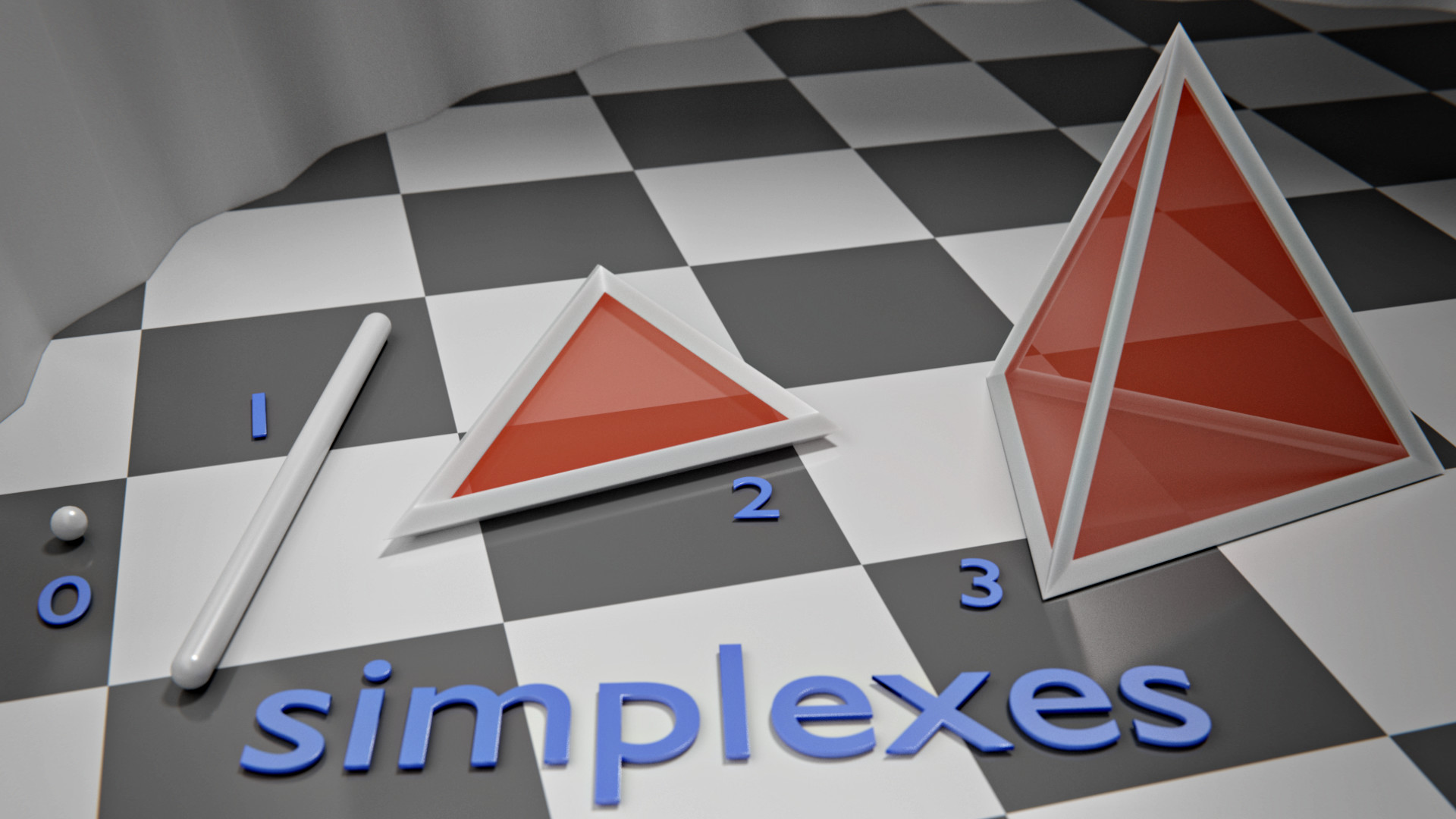 The four simplexes which can be fully represented in 3D. Created in Blender.